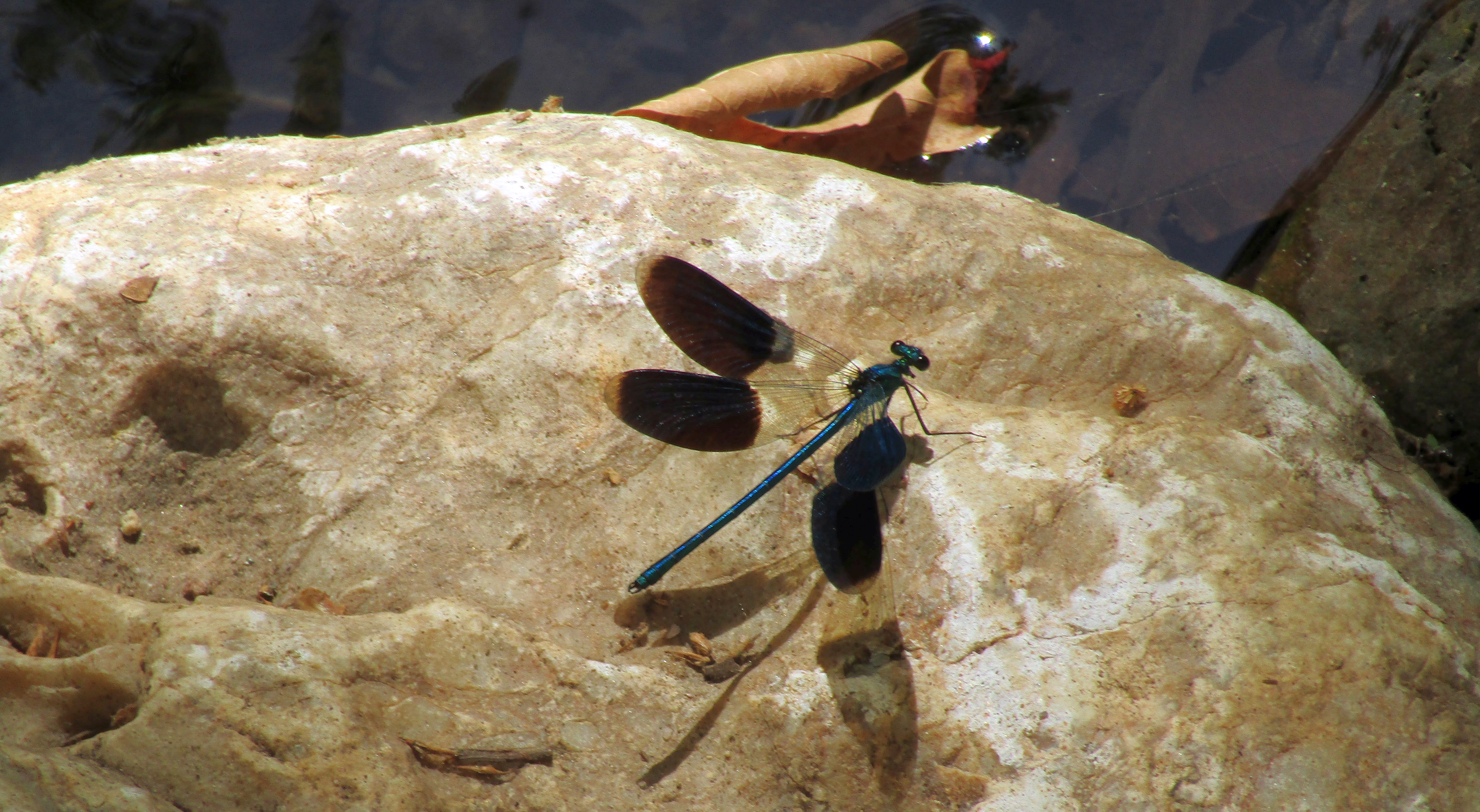 Dragonfly; Fodele river banks (Crete)